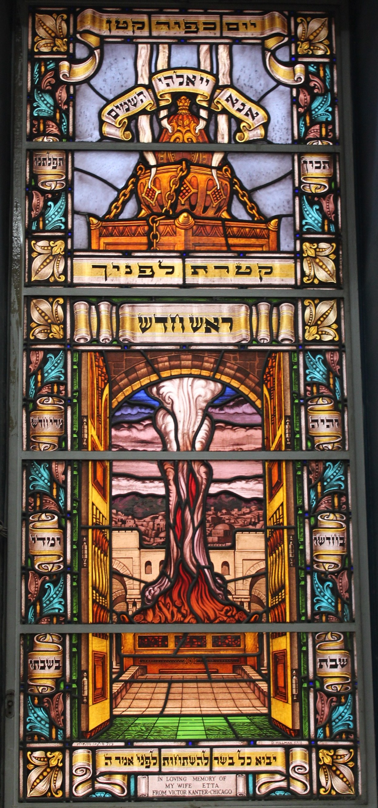 Renanim Synagogue, Heichal Shlomo, Jerusalem, Israel This image was taken as part of the Elef Millim project trip to Heichal Shlomo and The National Institutions House, in Jerusalem which was held on Friday, 15th November 2013. To view all images uploaded as part of the Elef Millim Project